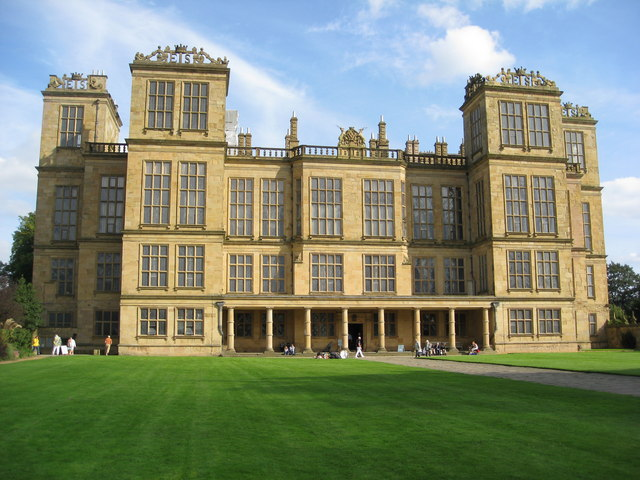 Hardwick Hall